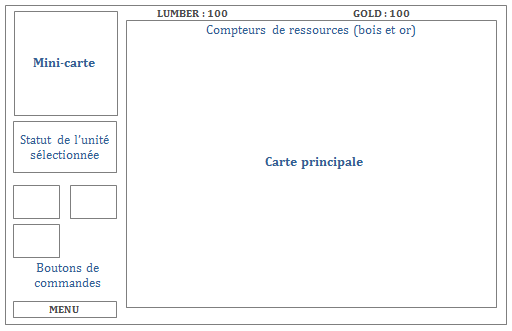 Diagram showing the functionalities of the interface in the video game Warcraft: Orcs and Humans